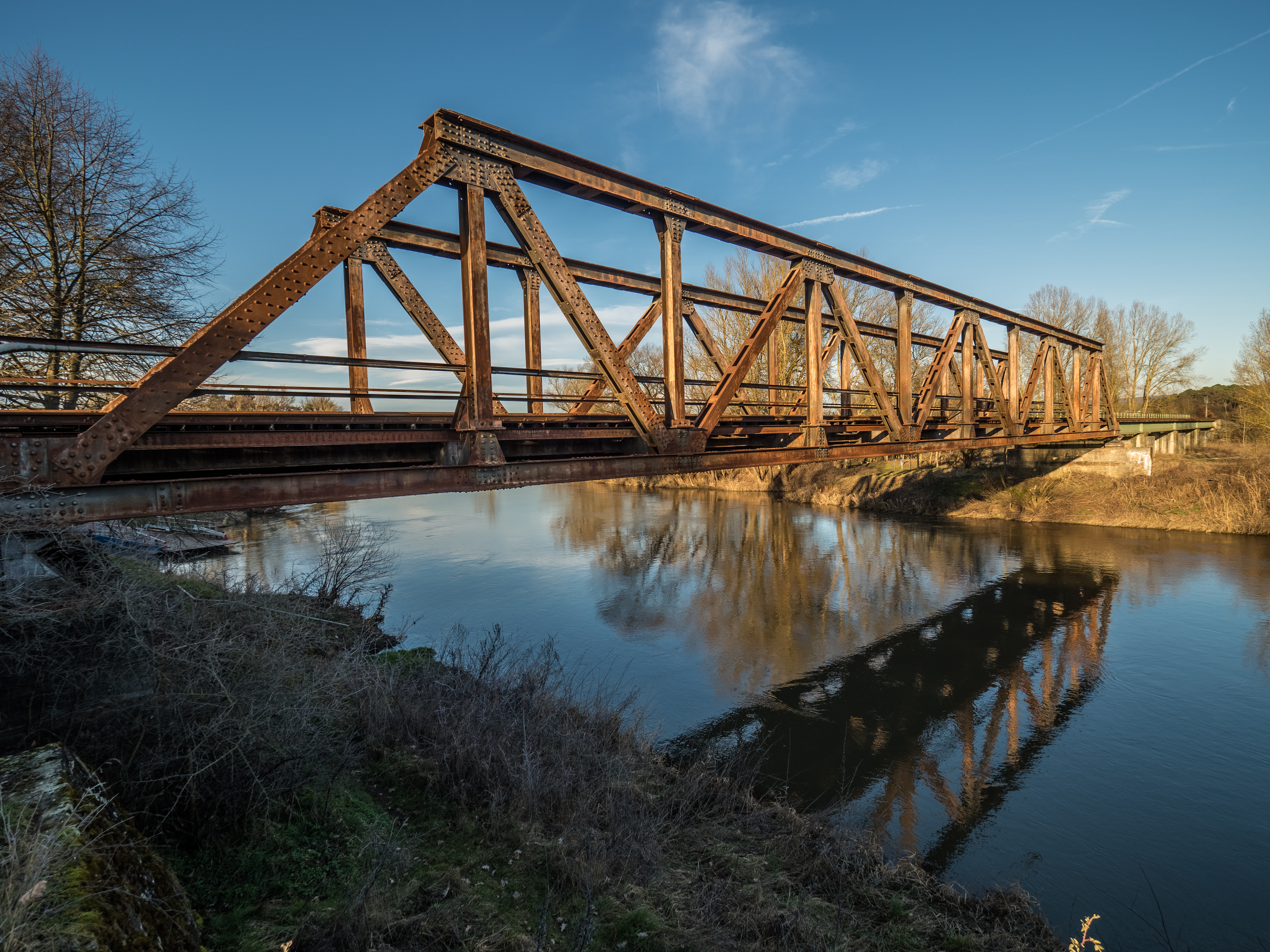 Railway bridge over the Regnitz in Pettstadt